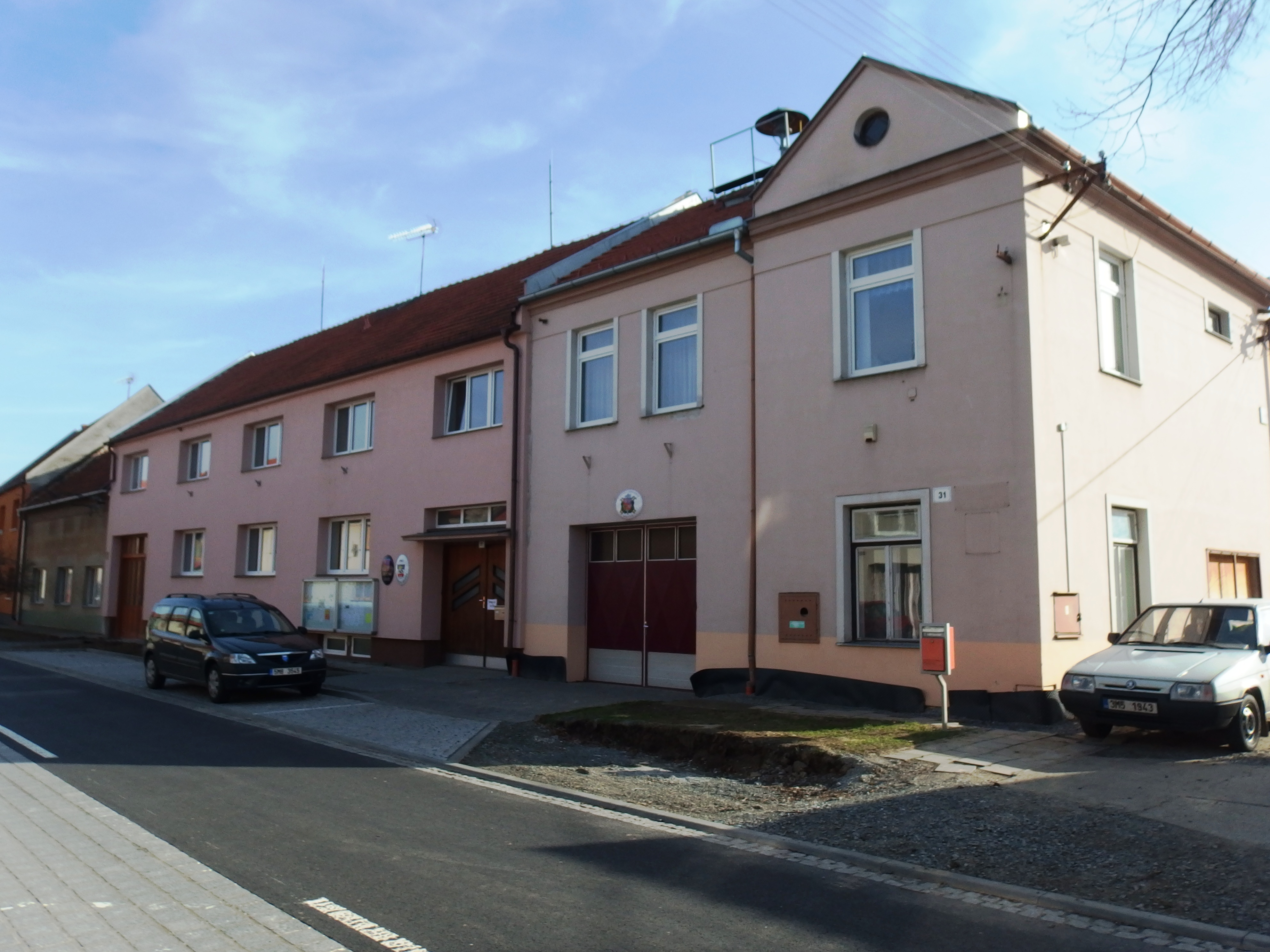 Vranovice-Kelčice, Prostějov District, Czech Republic, part Kelčice.